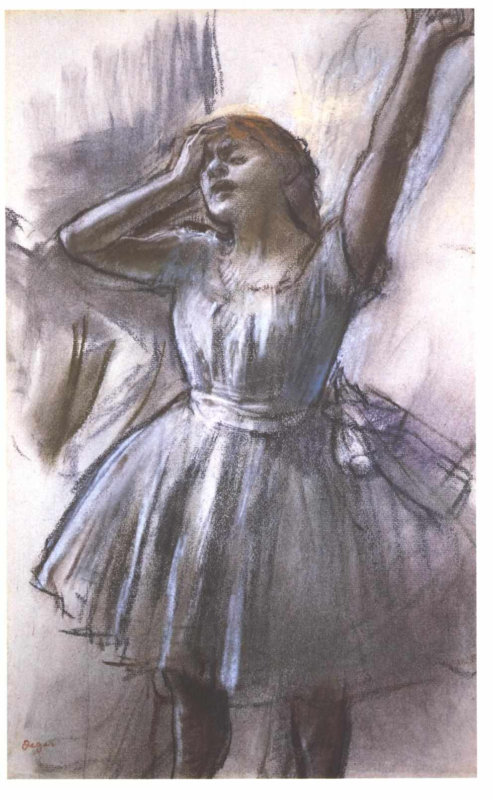 Exhausted dancer